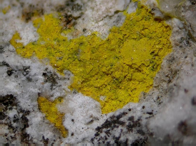 Hawleyite Locality: Nagylápafõ, Parádsasvár (Üveghuta), Mátra Mts., Heves Co., Hungary Yellow crust of Hawleyite. Field of view 8 mm. Specimen and photo Leon Hupperichs.